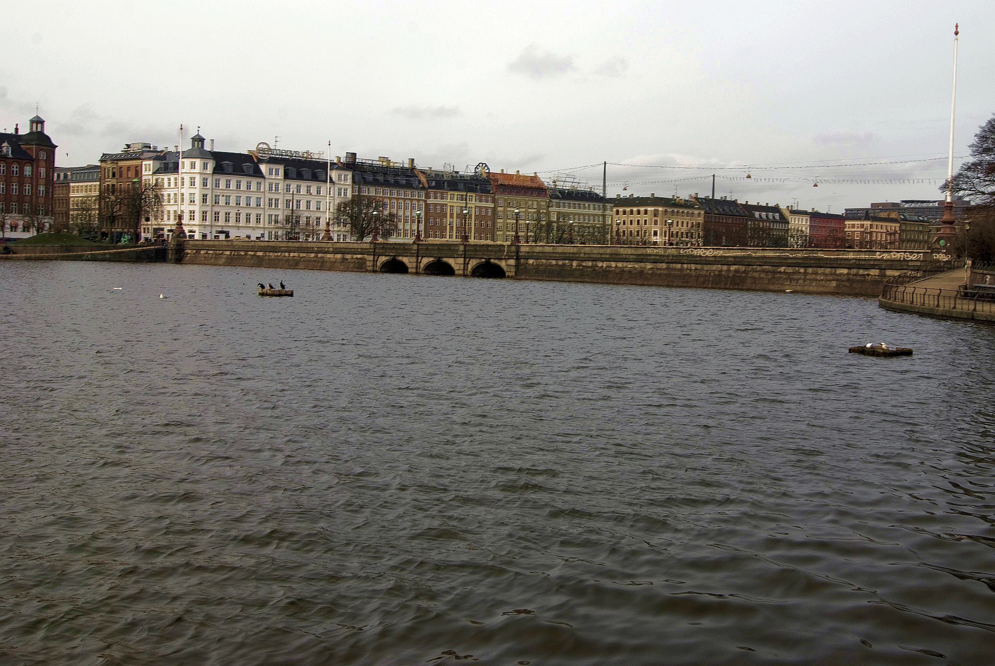 Dronning Louises Bridge - seen from south. This photo was uploaded as a part of an conceptual idea: FindVej NoPic.